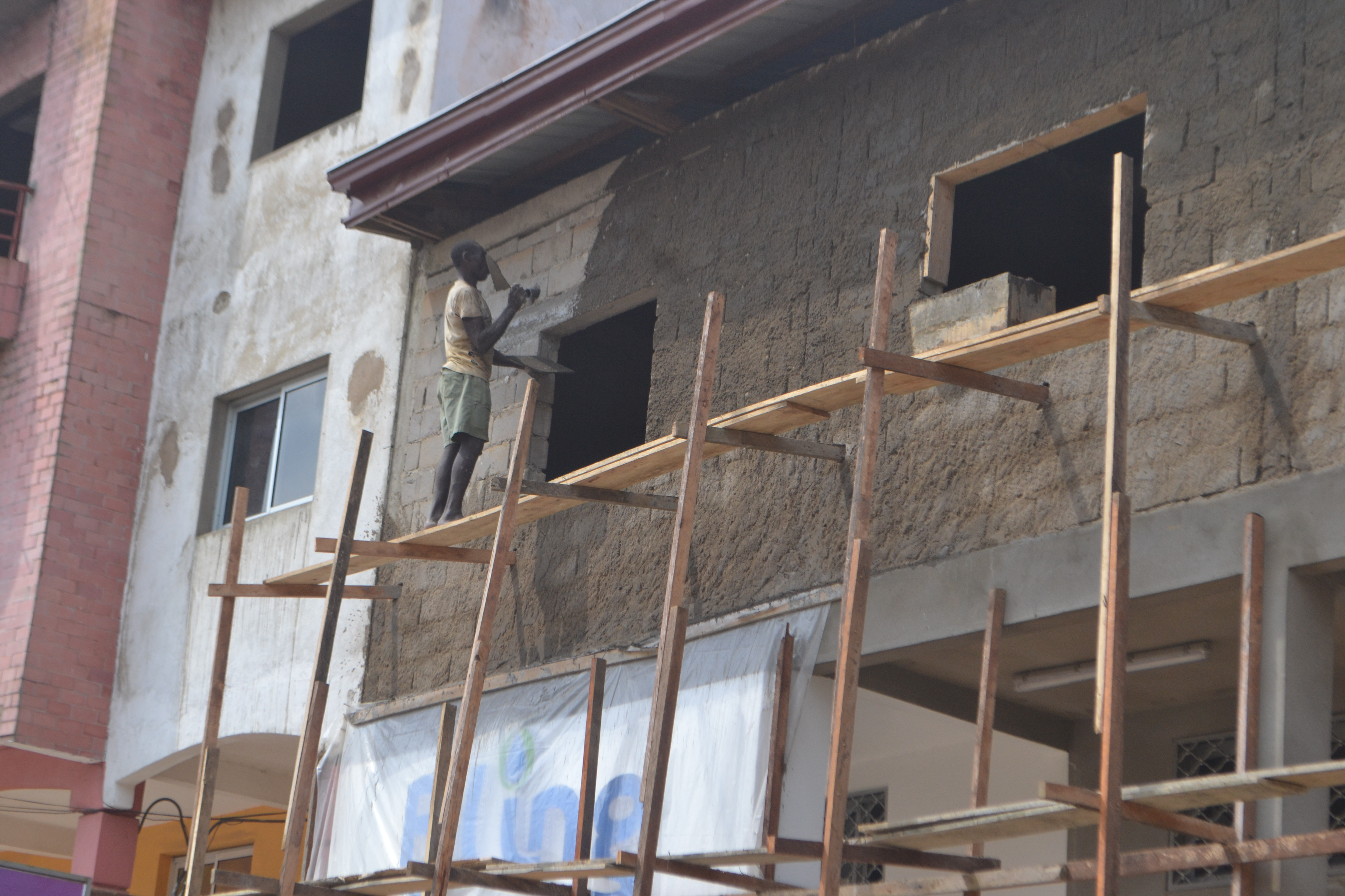 This is an image of "African people at work" from Cameroon